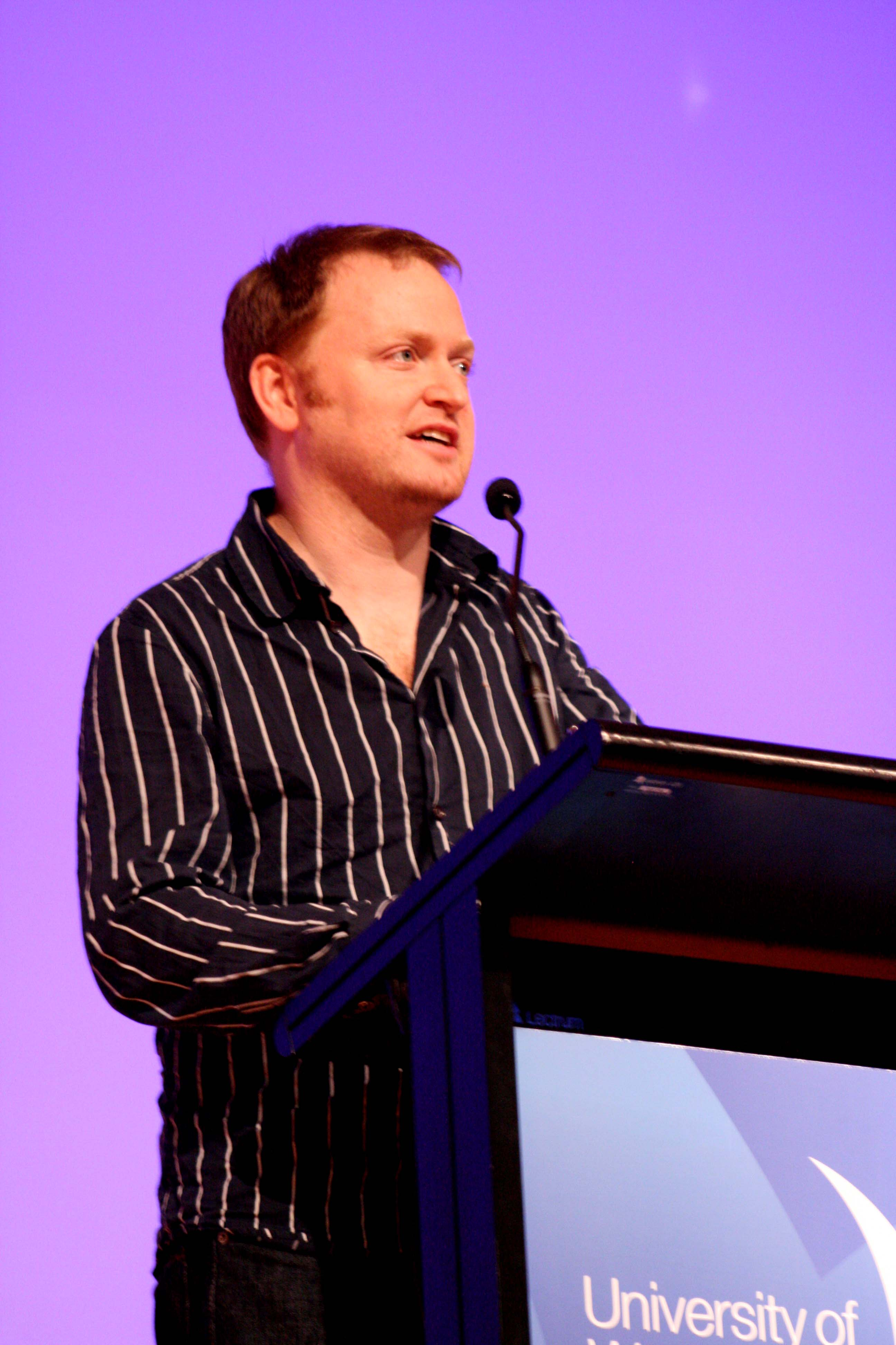 Another shot of Charles Firth at the Powershift Conference 2009.